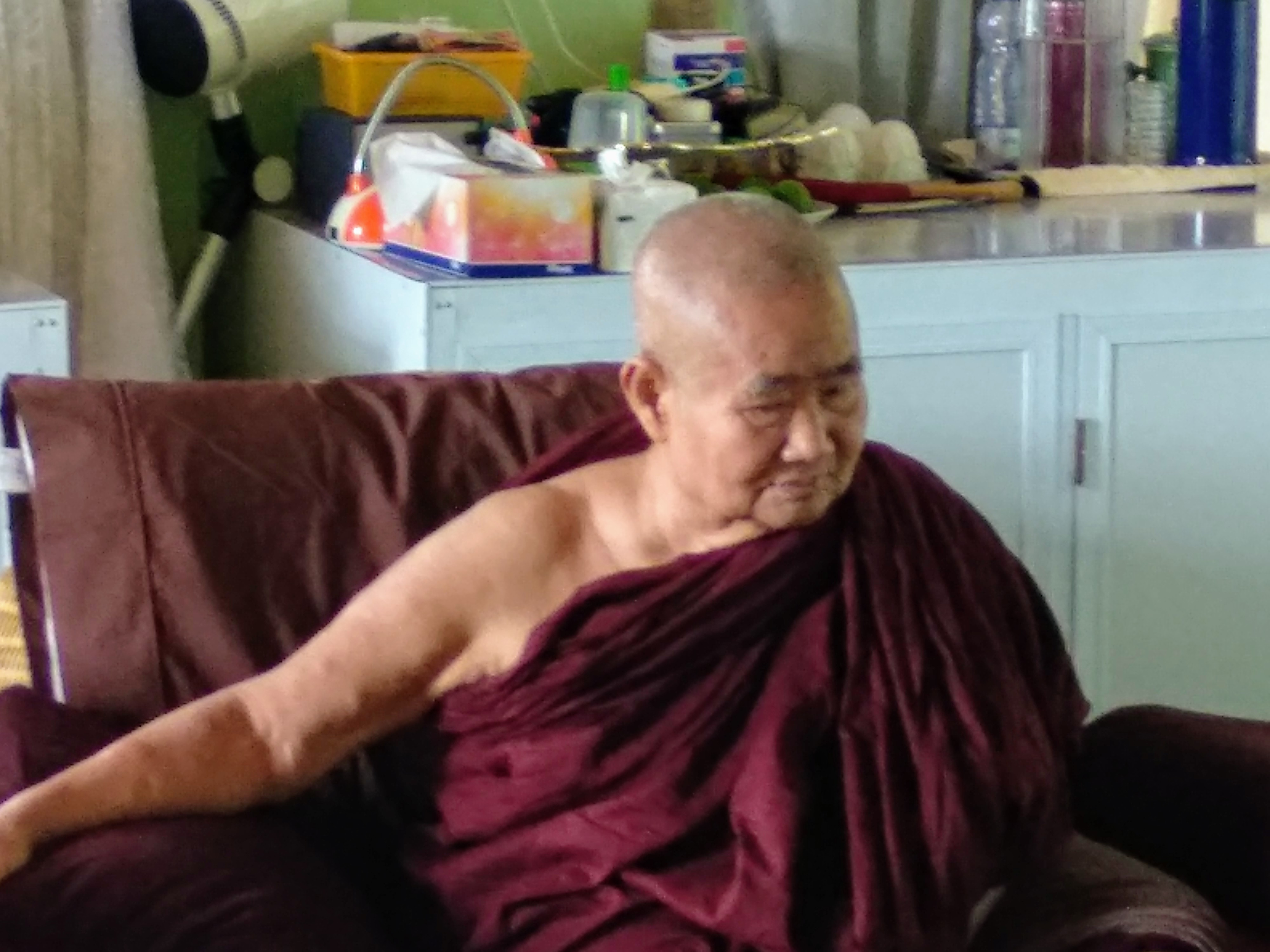 Venerable Pa-Auk Tawya Sayadaw Bhaddanta Āciṇṇa in Pa-Auk Forest Monastery (Pyin Oo Lwin) မြန်မာဘာသာ: ဖားအောက်တောရဆရာတော်ကြီး ဘဒ္ဒန္တအာစိဏ္ဏ အား ဖားအောက်တောရ (ပြင်ဦးလွင်) တွင် တွေ့ရစဉ်